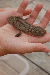 An Northern Brown Snake